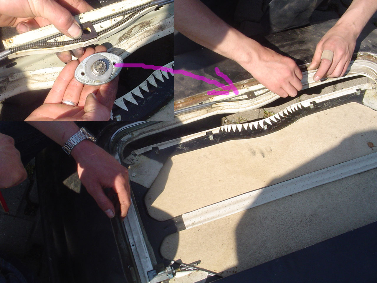 sun top drive of VW beetle top left: cogwheel and gear